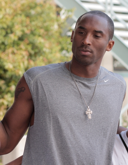 Kobe Bryant at his Basketball Academy - 2007